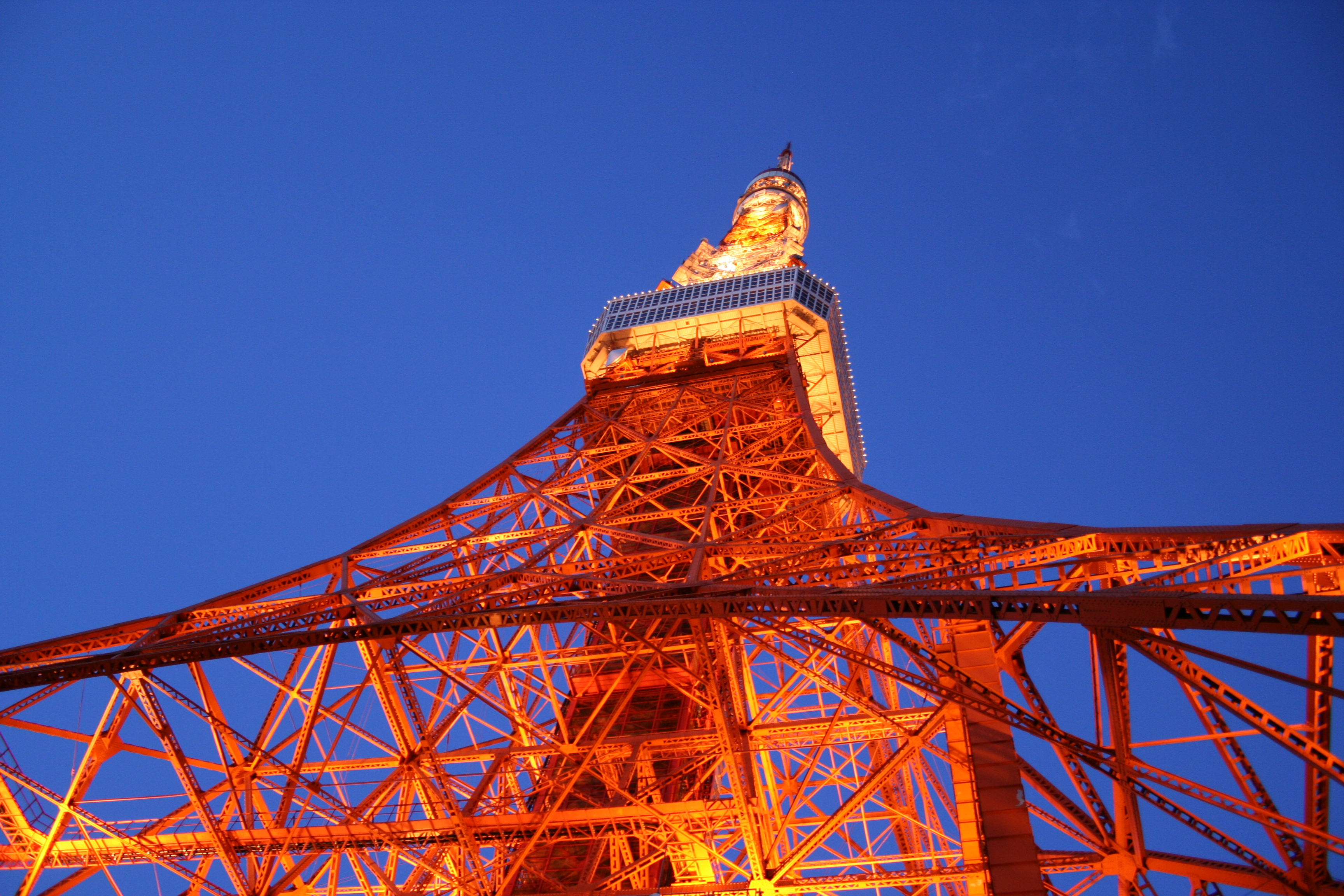 Tokyo Tower around at sunset, the lights already switched on.